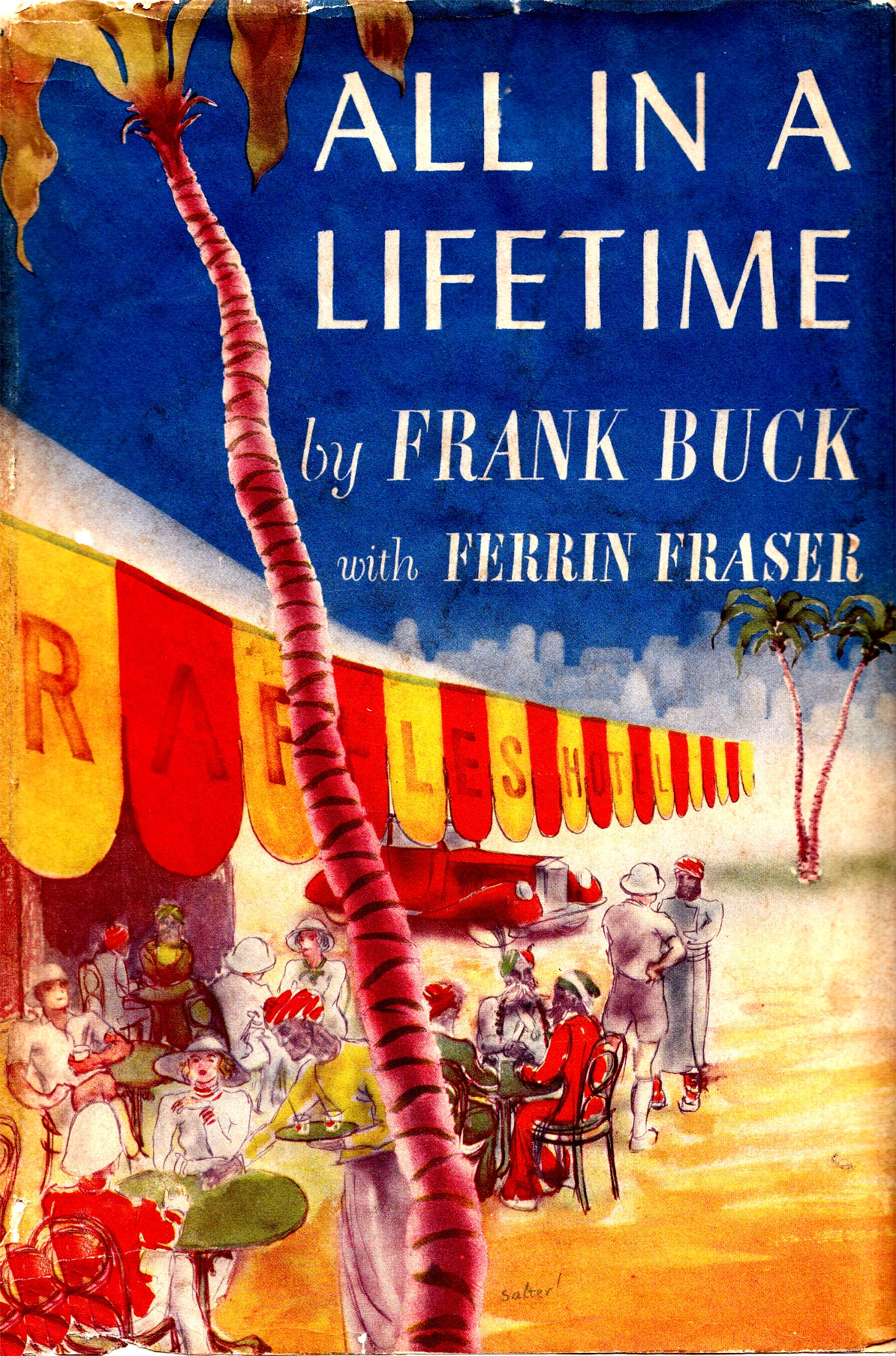 The publisher Robert M. McBride went bankrupt in 1948 and the copyright on ALL IN A LIFETIME (1941) was never renewed. Source: personal collection